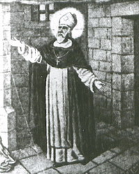 Portrait of Pedro Sanz, Bishop of Fokien (Fujian, China) in the 18th century, a Martyr Saint of China. He was persecuted and executed by Qing government in Foochow in 1747, and beatified in 2000.